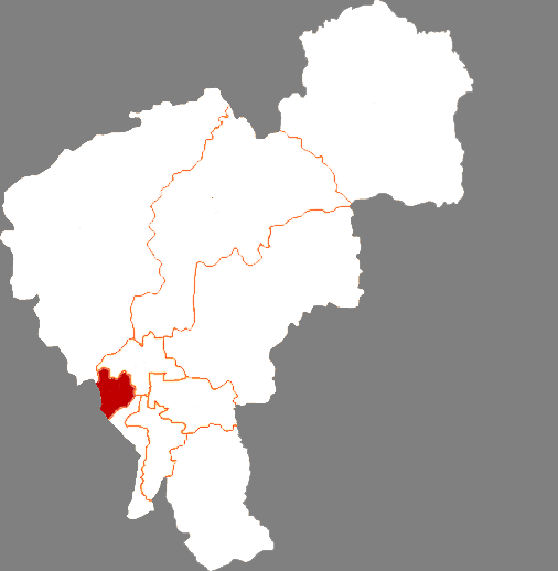 Location of Luyuan district in Changchun City, China